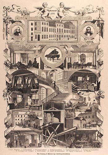 Advertisement from Hornung & Møller.